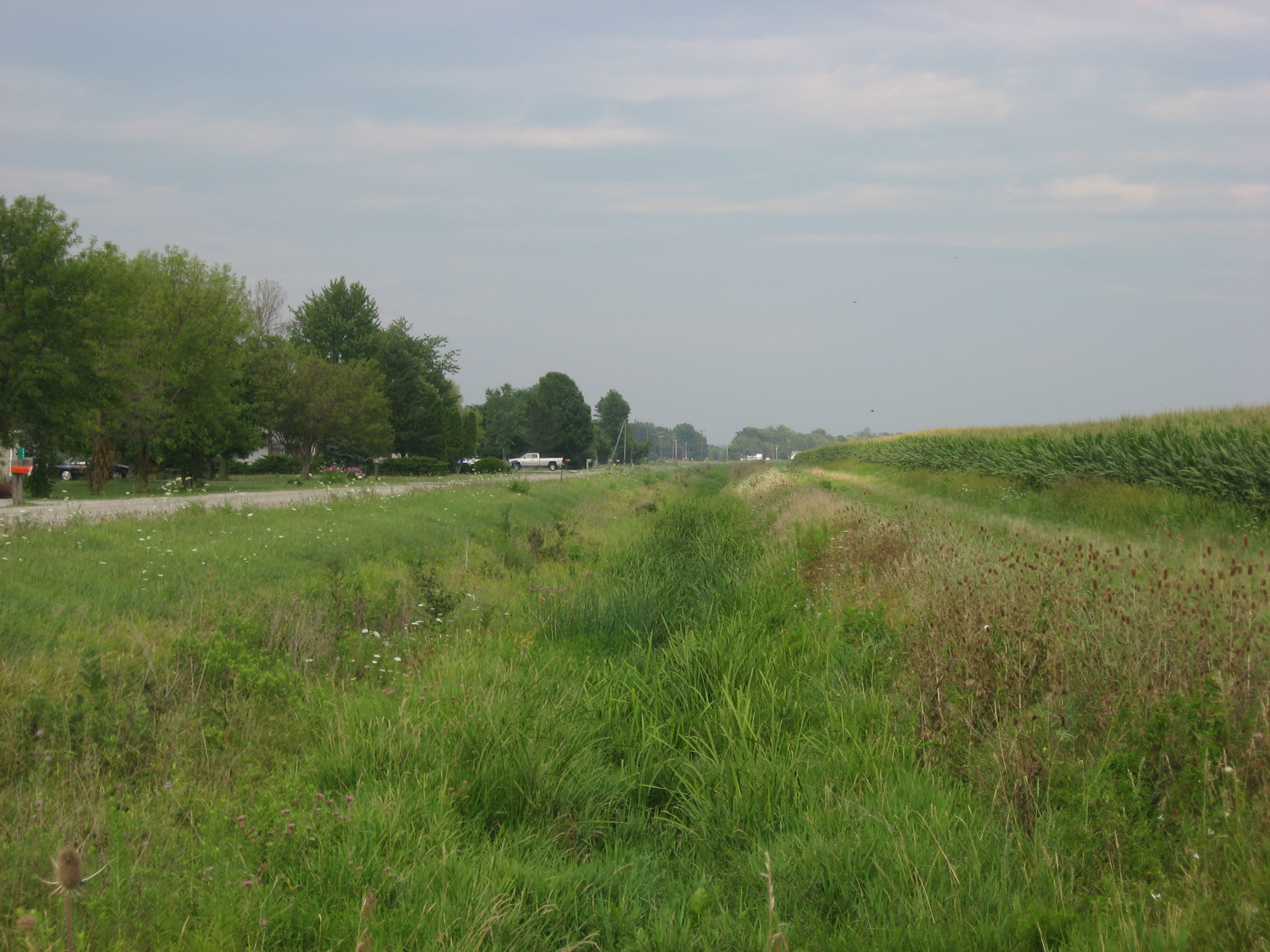 Looking eastward along the former path of the Wabash and Erie Canal from the intersection of County Road 180 and Township Road 51 east of Antwerp in southeastern Carryall Township, Paulding County, Ohio, United States.